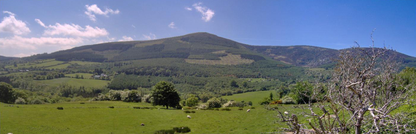 Maulin, Wicklow Mountains, north face.